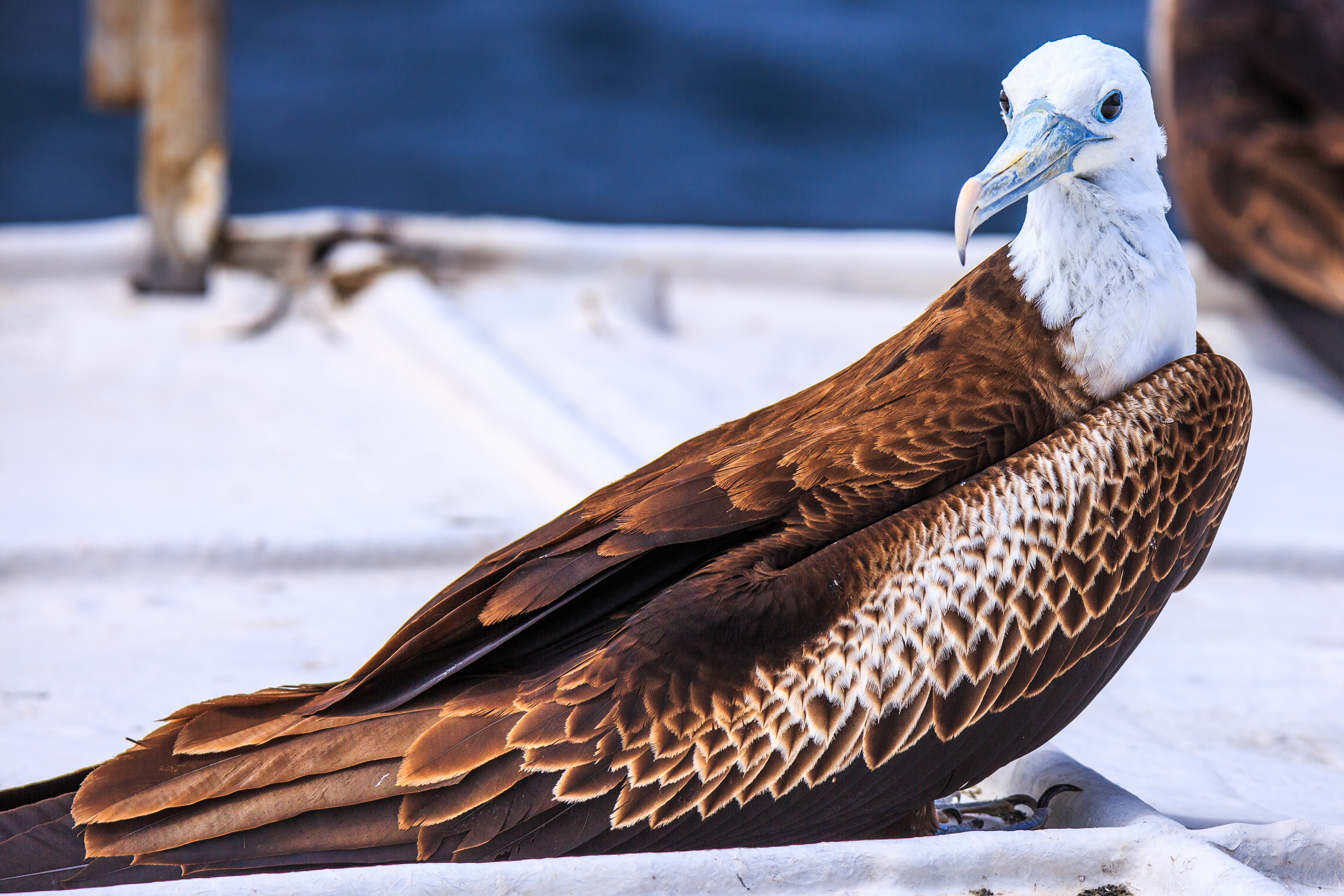 avian hitchhikers on the top deck of Xavier III...famle juvenile Magnificent Frigatebird (Fregata magnificens)...